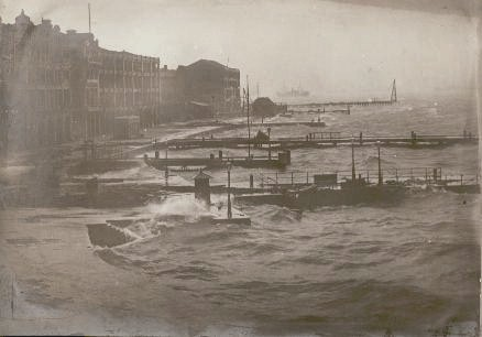 1906 Hong Kong typhoon